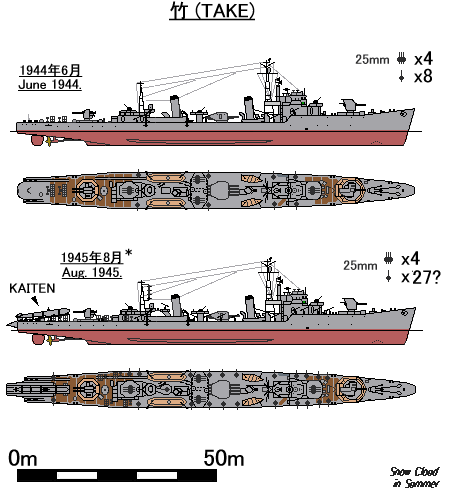 Layout of armament of IJN Destroyer TAKE ( Matsu-class or D-class), June 1944 & Aug. 1945. Layout of 25mm single machine gun is speclulation. Platfome of KAITEN is speculated, too.